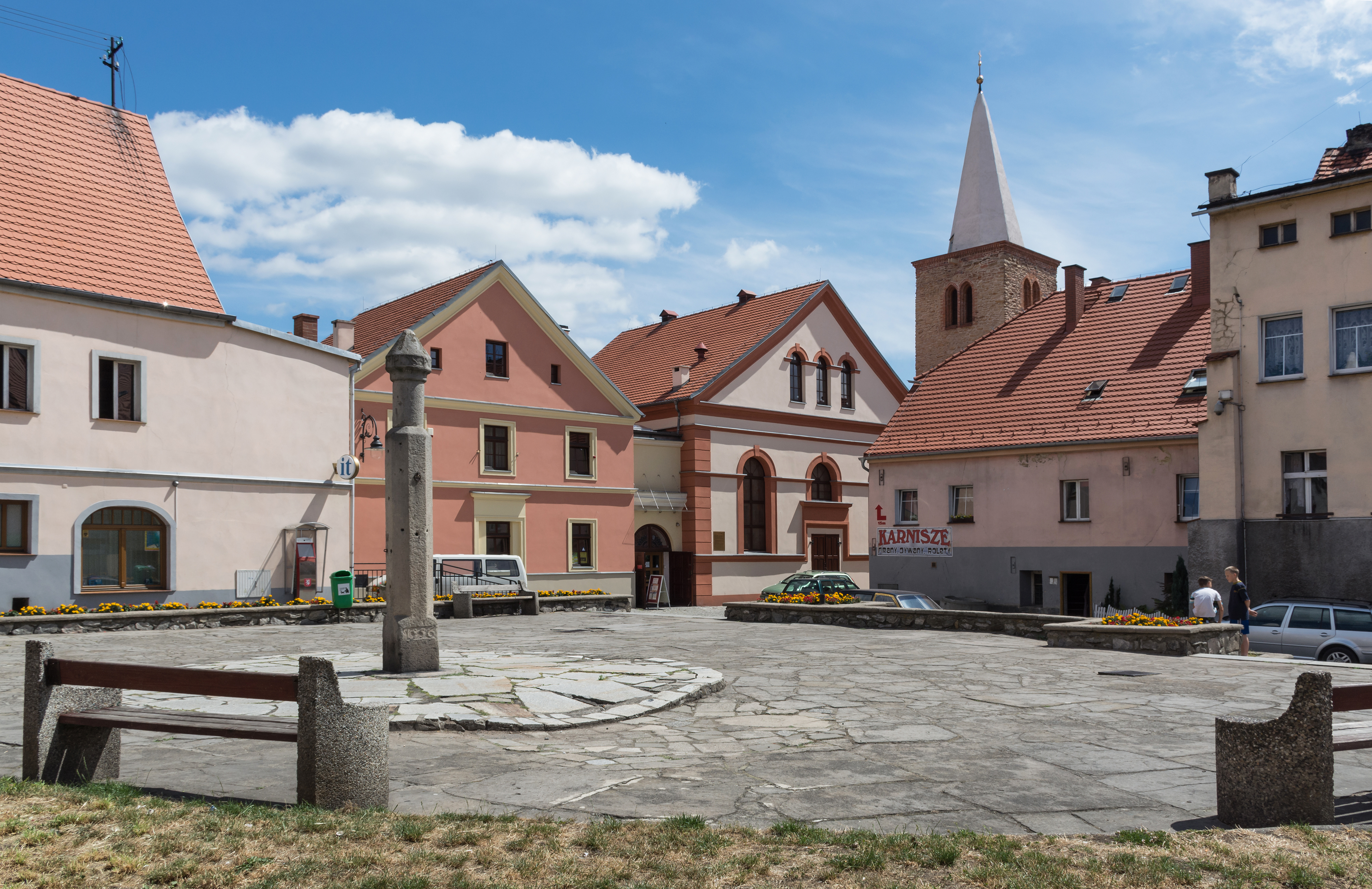 Little Market Square in Bystrzyca Kłodzka